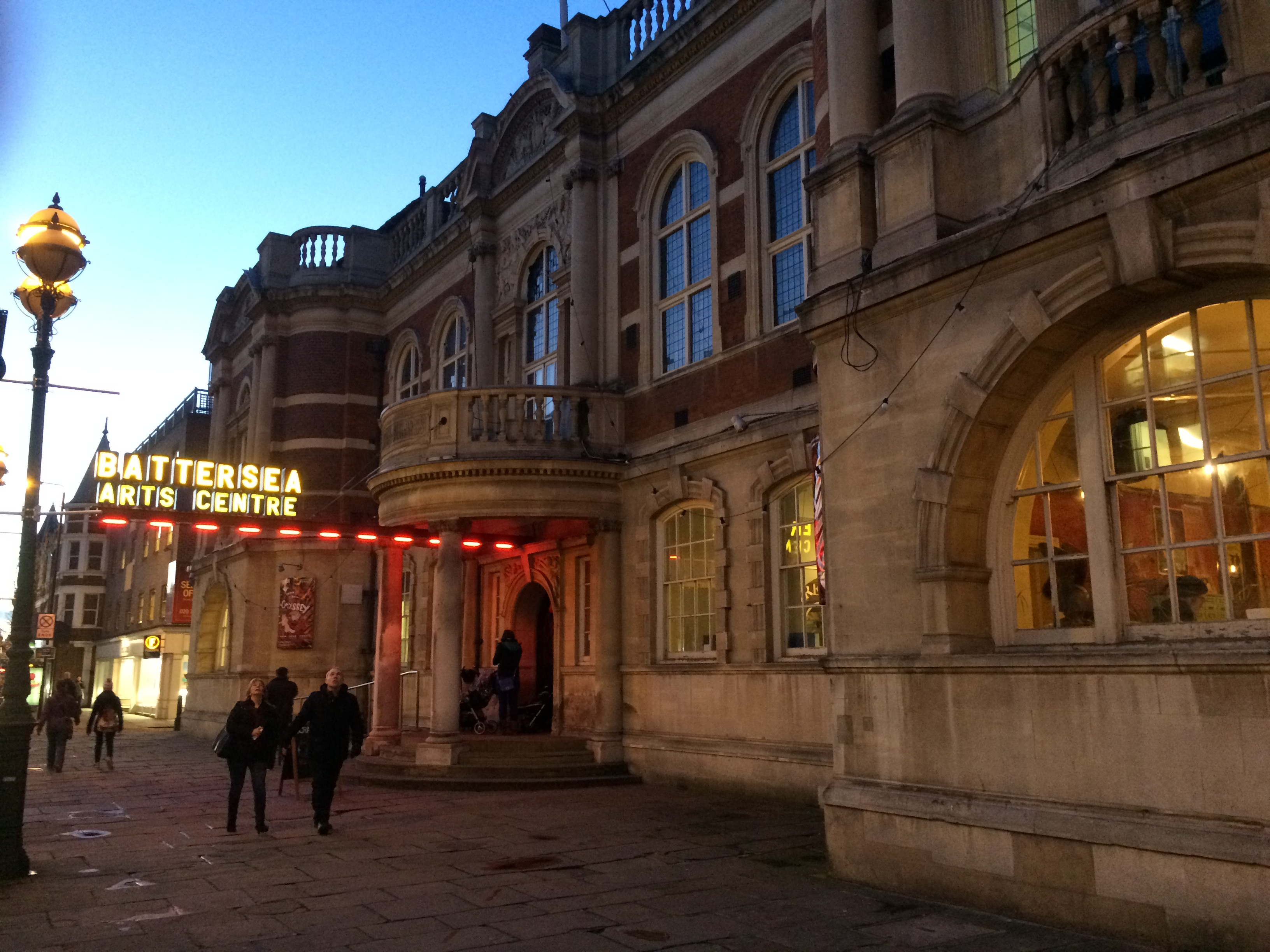 Front entrance to Battersea Arts Centre in London, England in the early evening